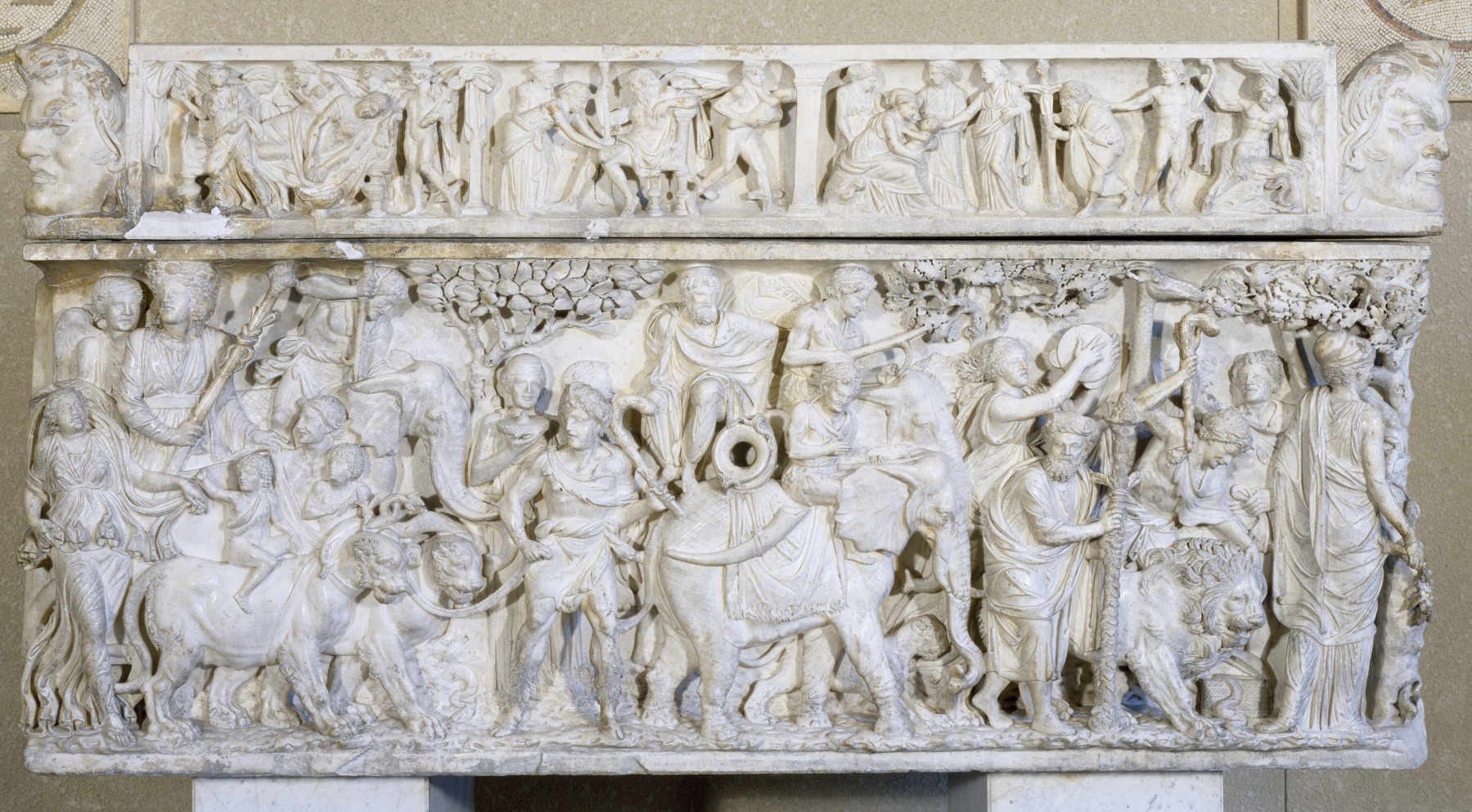 The triumphal march of Dionysus (or Bacchus, as he was generally known in Rome) through the lands of India was equated in Roman thought with the triumph of the deceased over death. At the left, Dionysus rides in a chariot pulled by panthers. Preceding him is a procession of his followers and exotic animals, including lions, elephants, and even a giraffe. A bird's nest is concealed in the tree at the far right; on the same tree a snake is pursuing a lizard. Many of the animals depicted had special significance in the mystery cult of Dionysus Sabazius. On the lid is the birth of Dionysus and his reception by nymphs, shown between satyr heads (on the ends), one smiling and one frowning. The enormous attention to detail on this sarcophagus exemplifies the talents of the best Roman relief carvers.